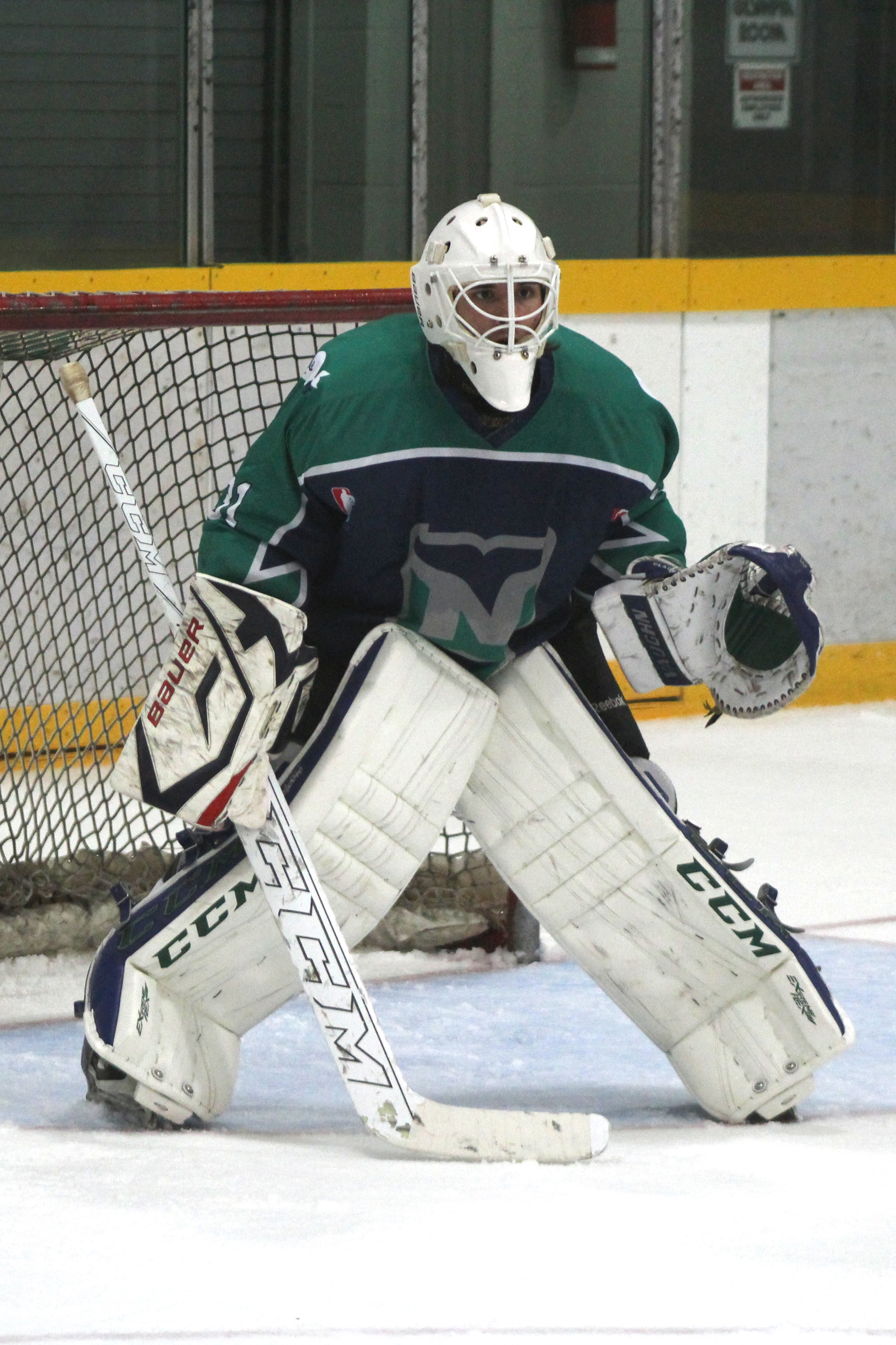 These images of GMHL Action action during the 2015-16 season are taken by Devan Mighton.